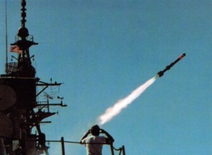 Launch of an RUR-5 ASROC (for "Anti-Submarine Rocket") from the U.S. Navy guided missile destroyer USS Joseph Strauss (DDG-16) in 1978.